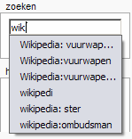 screenshot GNU FDL-site (wikipedia nl) MADe 26 sep 2005 17:57 (CEST)